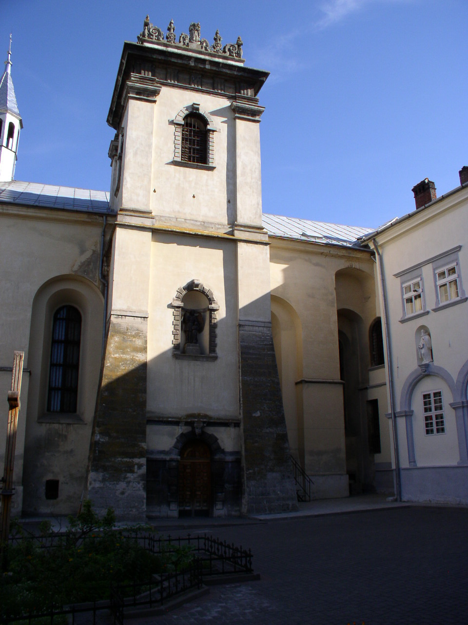 Church and convent of Benedictines. Lviv, Ukraine.